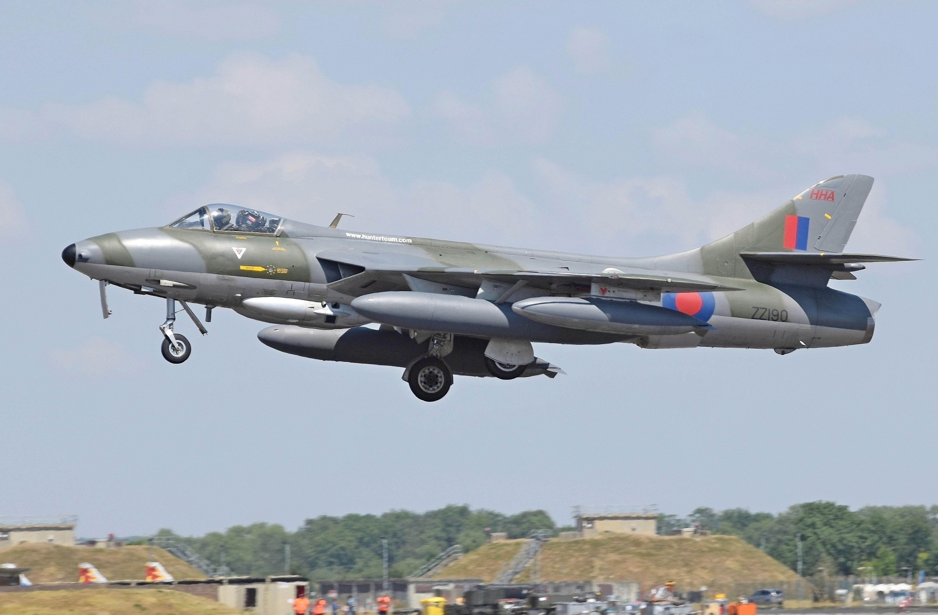 Hawker Hunter F.58 (code ZZ190) of Hawker Hunter Aviation Ltd arrives at the 2018 Royal International Air Tattoo, RAF Fairford, England. The aircraft was built in 1962 for the Swiss Air Force (code J-4066) and has been on the UK register as G-HHAE and G-BXNZ. This aircraft now has no civil registration. F.58 is the name given to the Swiss version of the Hunter F.6. Hawker Hunter Aviation Ltd is a CAA and MoD approved and regulated company which owns, operates and maintains a fleet of fast jets. It works with Air Forces to provide aerial combat training, trials management & support, photo chase, and radar calibration.